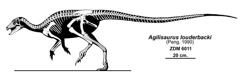 Skeletal reconstruction of Agilisaurus louderbacki